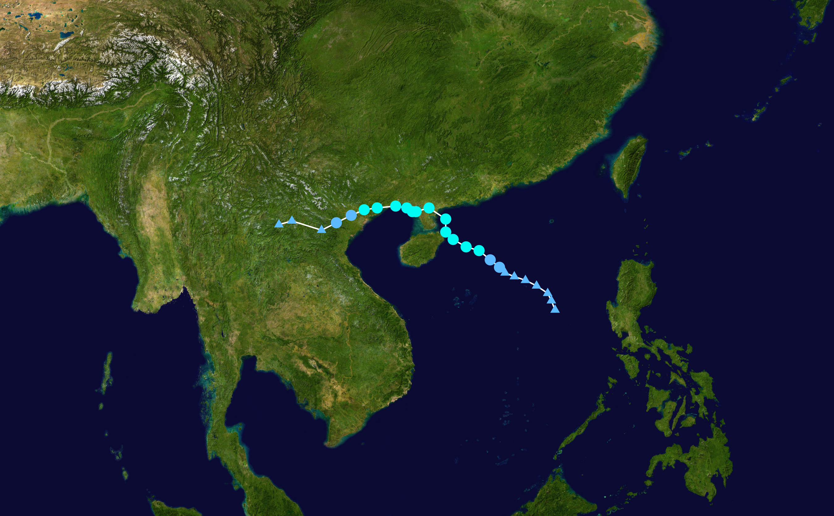 Track map of Tropical Storm Wipha of the 2019 Pacific typhoon season. The points show the location of the storm at 6-hour intervals. The colour represents the storm's maximum sustained wind speeds as classified in the Saffir–Simpson scale (see below), and the shape of the data points represent the nature of the storm, according to the legend below. Saffir–Simpson scale Tropical depression≤38 mph≤62 km/h Category 3111–129 mph178–208 km/h Tropical storm39–73 mph63–118 km/h Category 4130–156 mph209–251 km/h Category 174–95 mph119–153 km/h Category 5≥157 mph≥252 km/h Category 296–110 mph154–177 km/h Unknown Storm type Tropical cyclone Subtropical cyclone Extratropical cyclone / Remnant low / Tropical disturbance / Monsoon depression